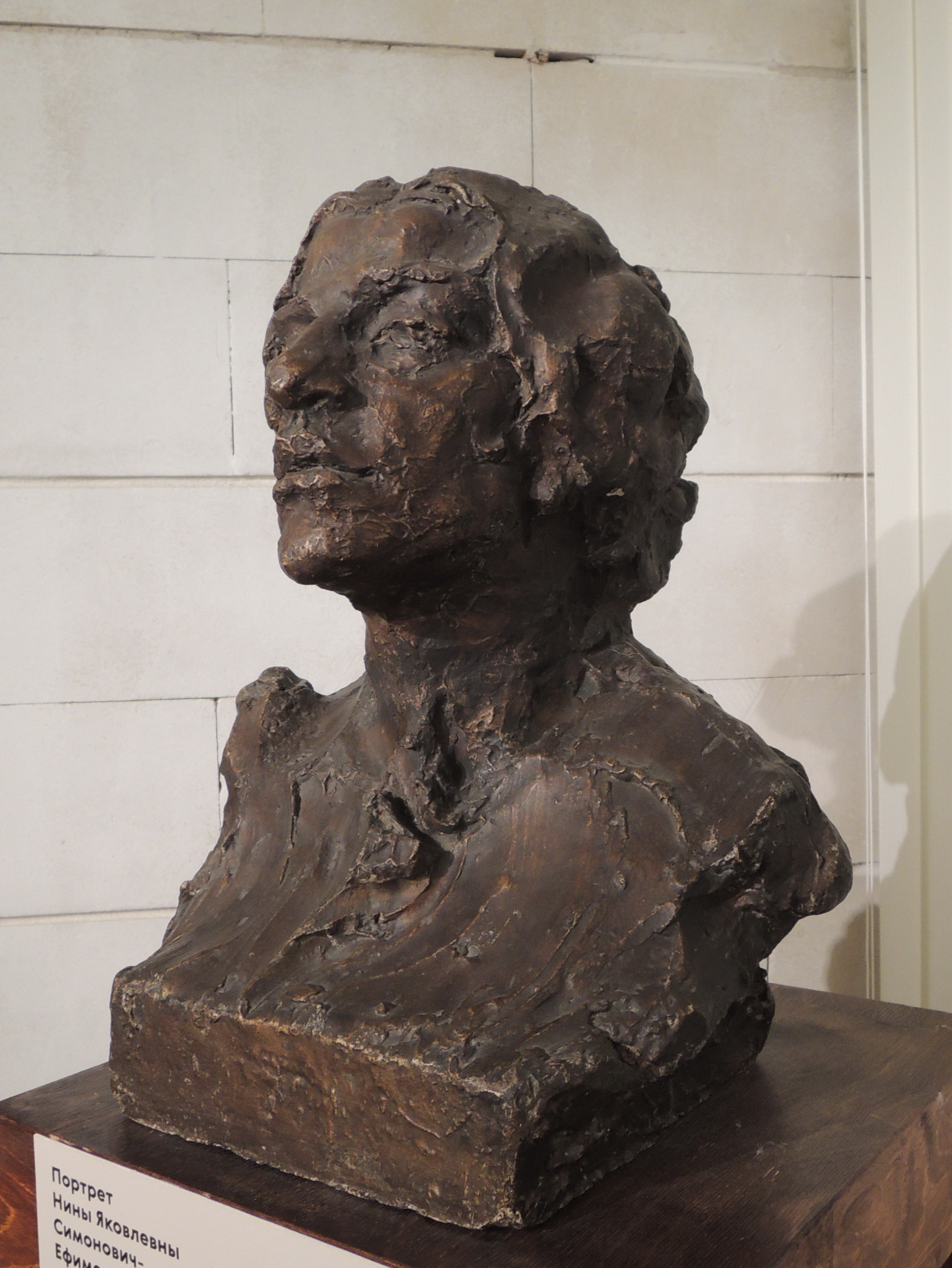 see filename. Own photo of work of sculptor Anna Golubkina (1864-1927)